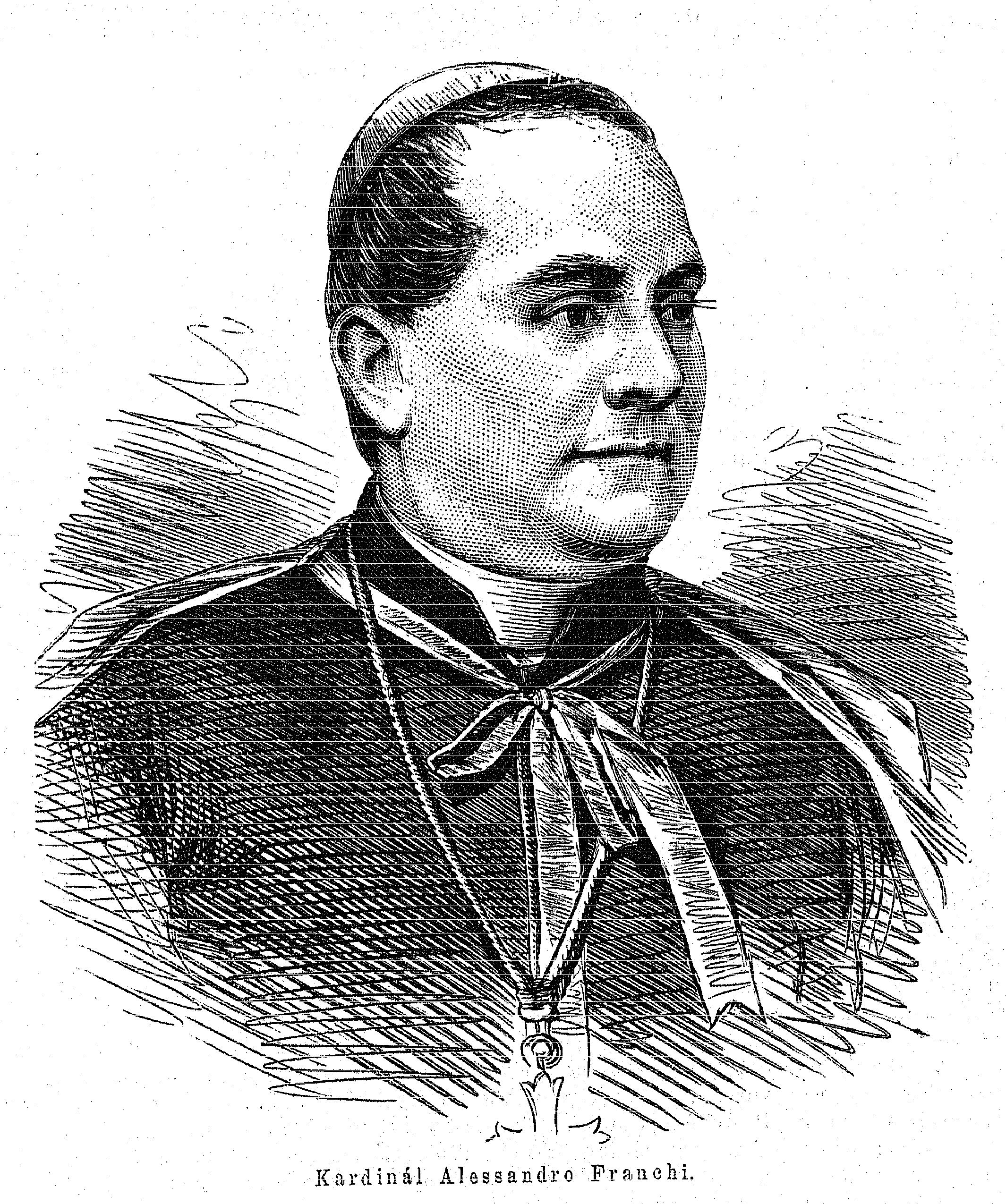 Portrait of Cardinal Alessandro Franchi (1819 - 1878)